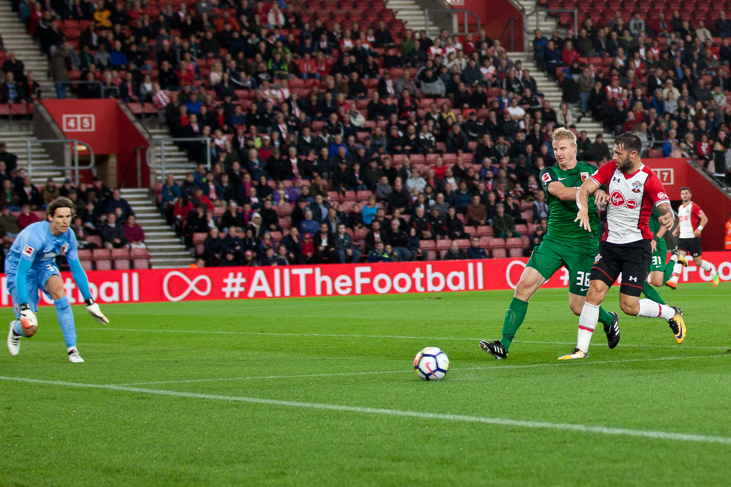 Pre-season friendly Wednesday 2 August 2017 Image by Steve Hogg